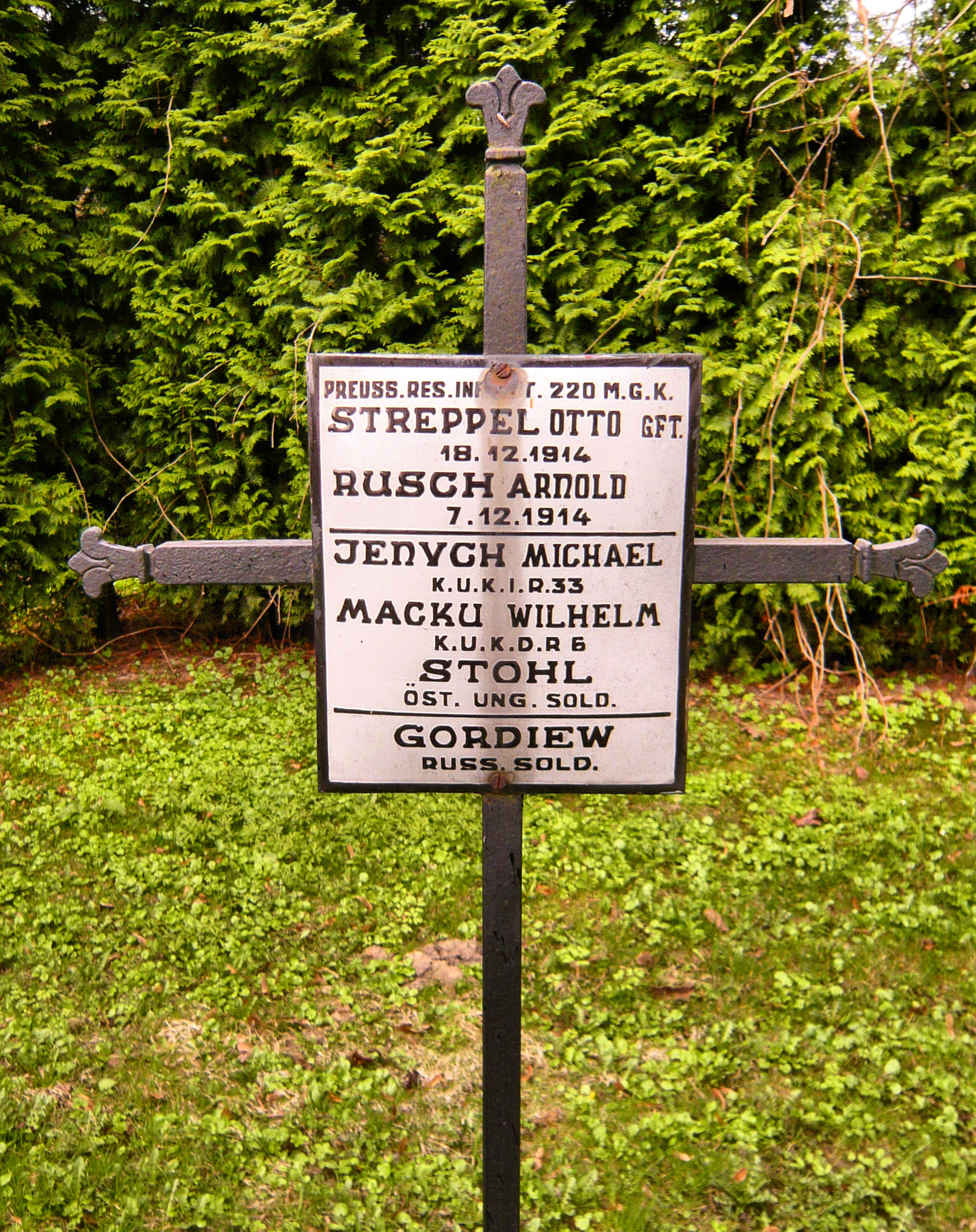 World War I Cemetery nr 301 in Żegocina - Poland